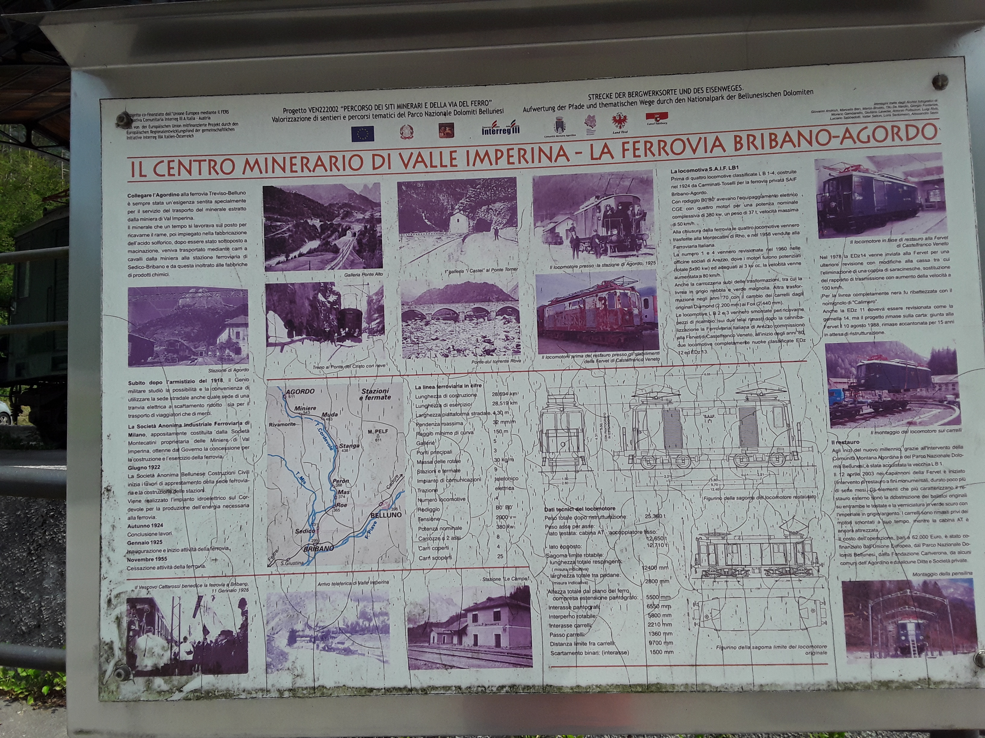 Valle Imperina Mining Center